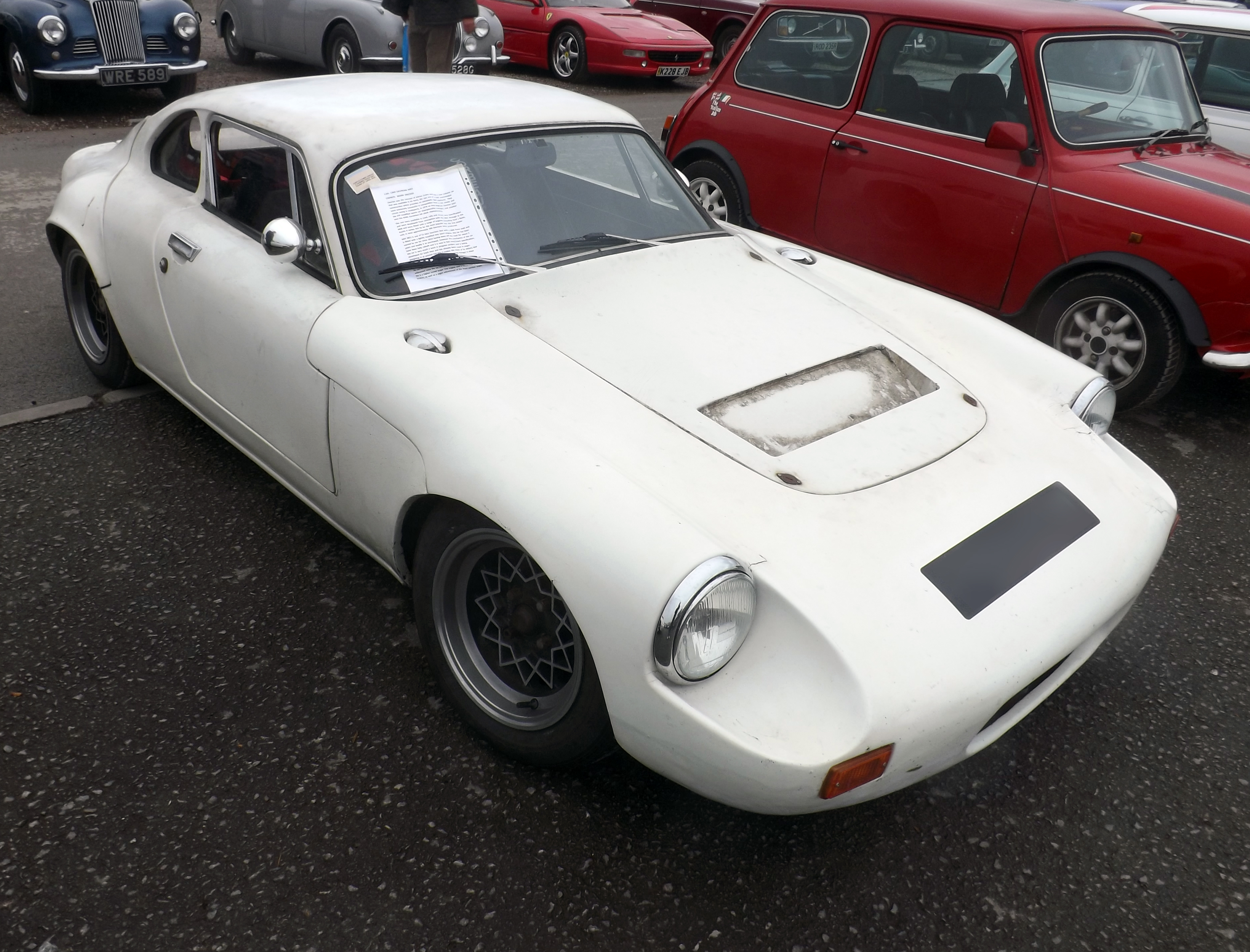 A 1970 Davrian Mk. V at the Bristol Classic Car Show, Royal Bath & West Showground, 13th June 2015. 875cc, first registered December 1970.